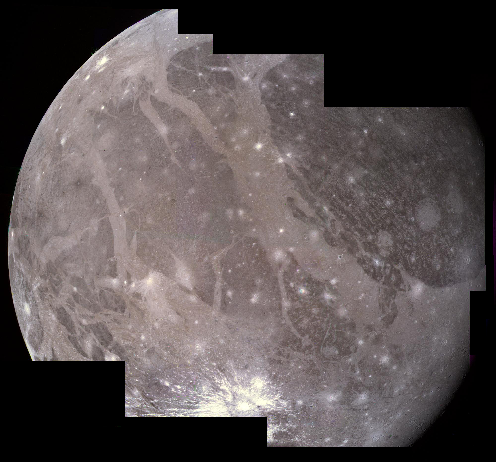 The hemisphere of Ganymede that faces away from Jupiter displays a great variety of terrain. In this Voyager 2 mosaic, photographed at a range of 300,000 kilometers, the ancient dark area of Regio Galileo lies at the upper right. Below it, the ray system is probably caused by water-ice, splashed out in a relatively recent impact. The original NASA image has been cropped, and some non-full-color areas have been blacked out.